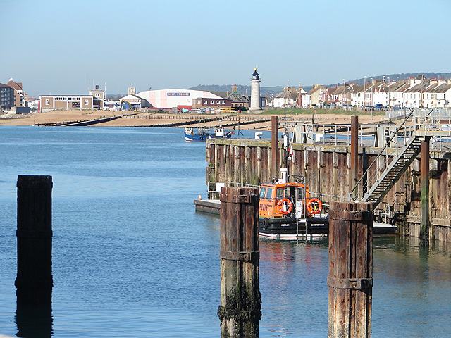 Shoreham Harbour entrance and the Kingston Buci Lighthouse Kingston Buci Lighthouse was first used in 1846. It is now, of course, fully automated.